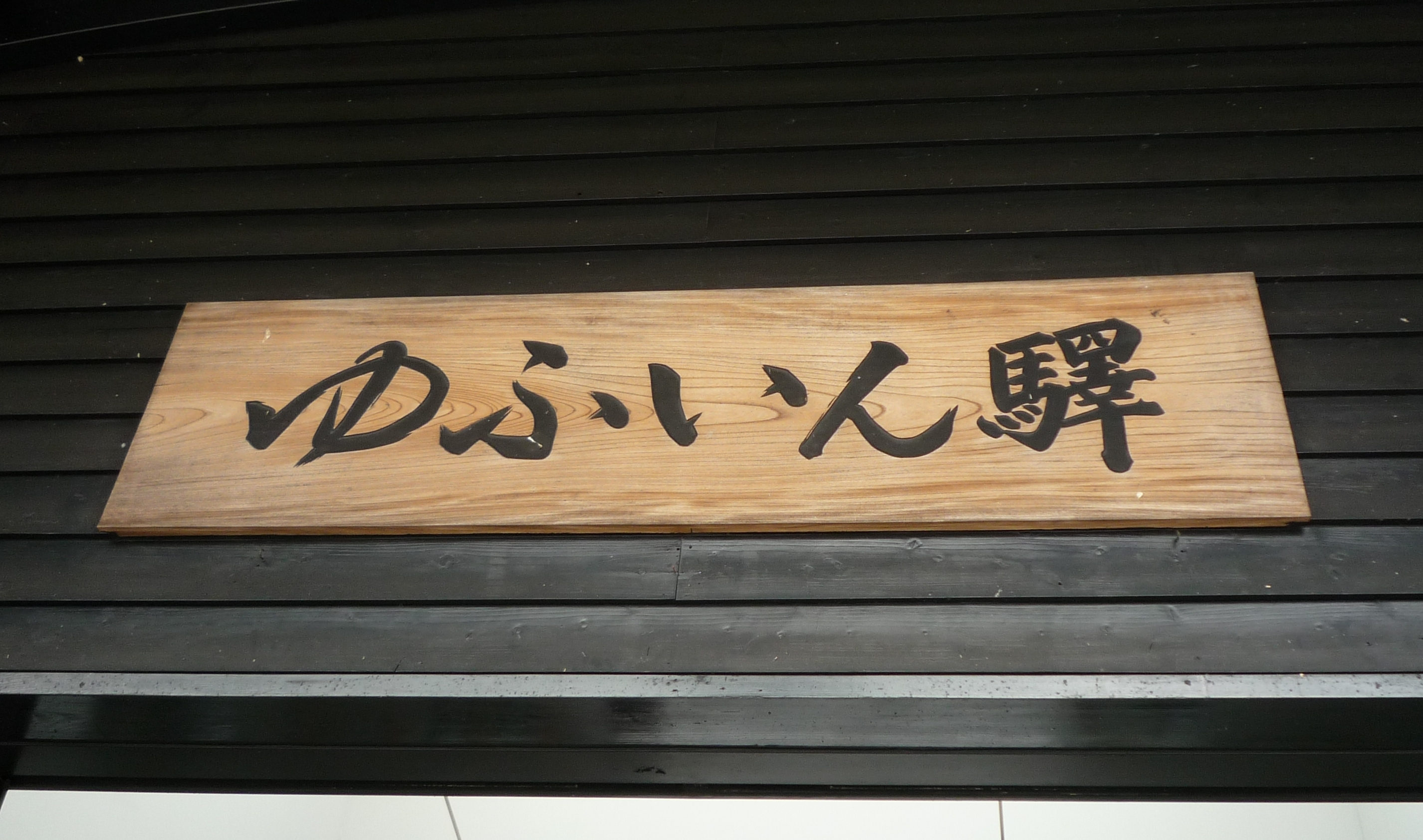 Station name board at the entrance of Yufuin Station (Yufu, Ōita Prefecture, Japan)